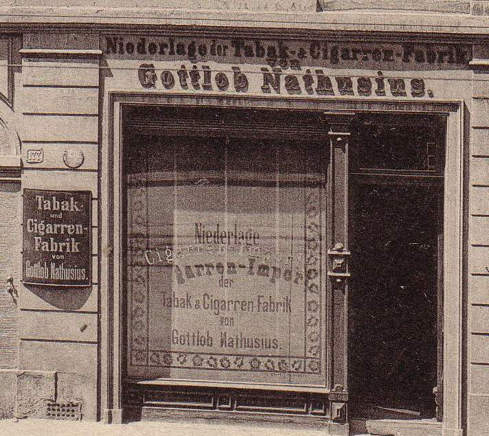 Ausschnitt aus: Wohnhäuser am Breiteweg 177 und 178 in Magdeburg (Deutschland), erbaut um 1720, aus: Blätter für Architektur und Kunsthandwerk, XVI Jahrgang, Tafel 119, Verlag von Max Spielmeyer, Berlin